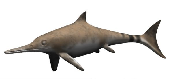 Ichthyosaurus communis, Early Jurassic of England. Digital.